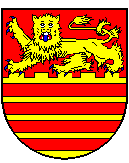 Coat of arms of the city of Bad Lauterberg